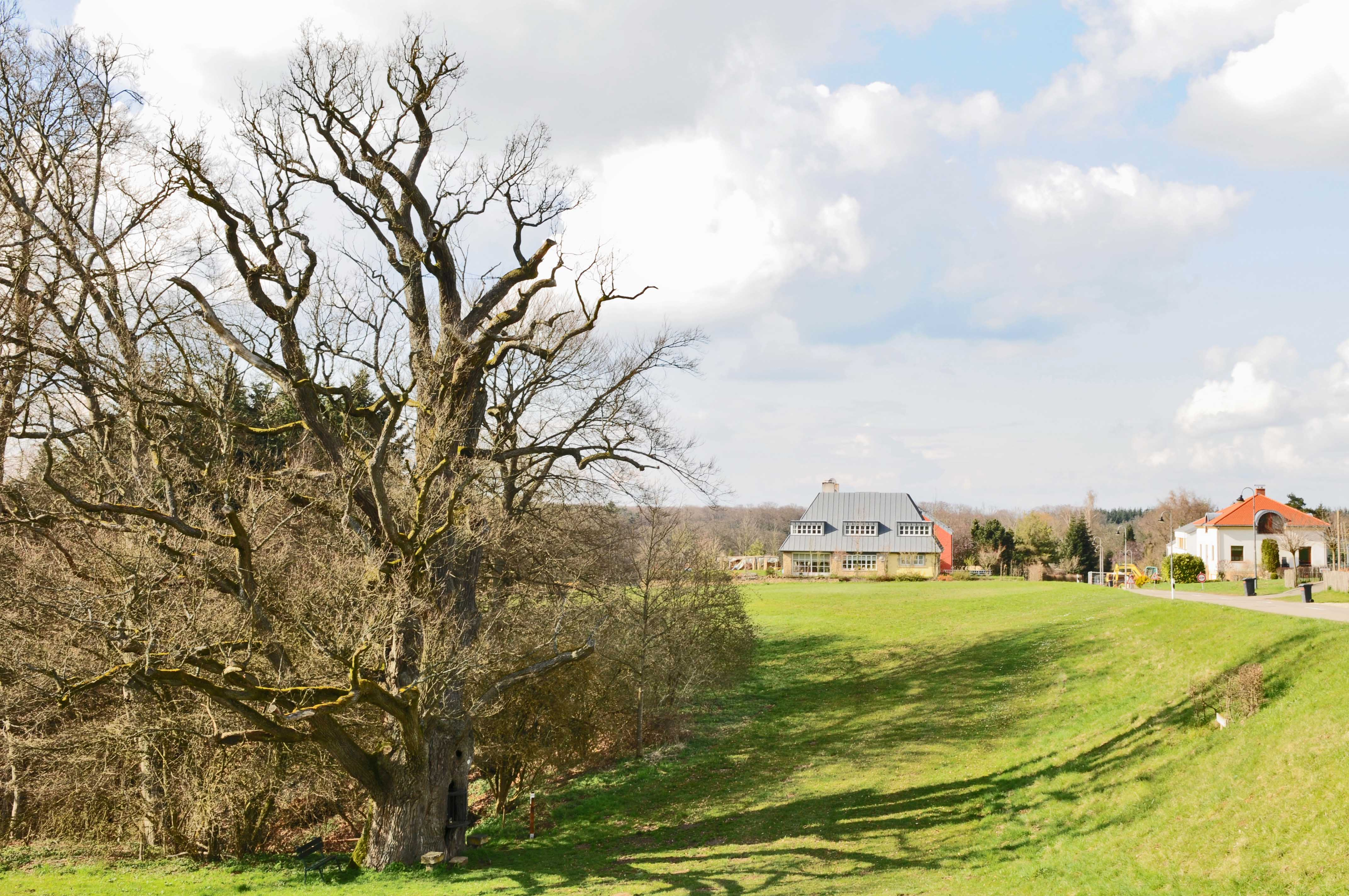 Ca 500 years old oak in Hersberg, Bech, Luxembourg, with a statue of the Madonna, site of annual pilgrimage